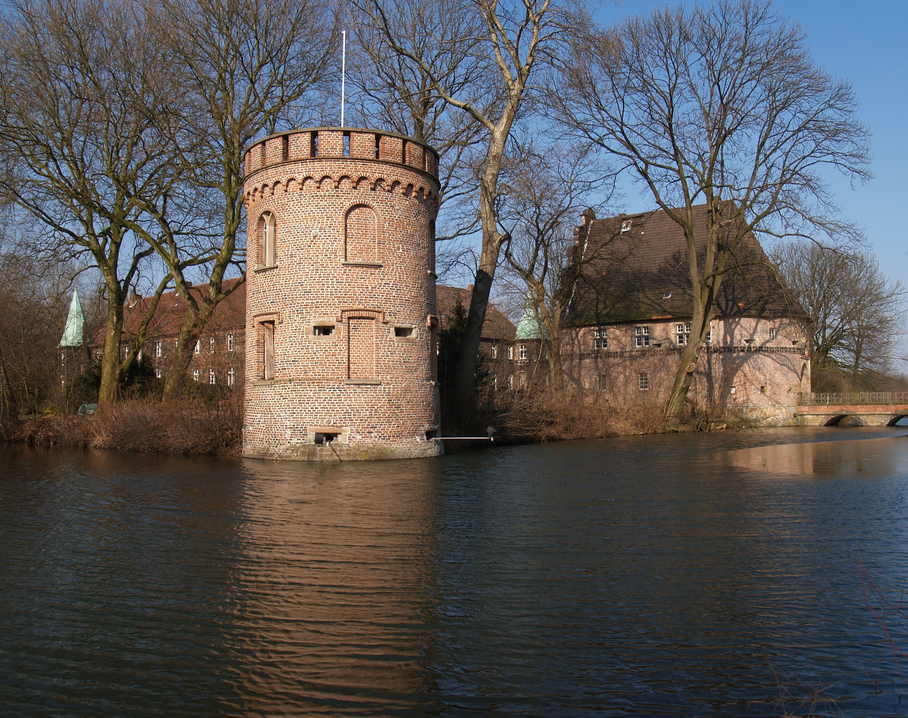 Bladenhorst castle in Castrop-Rauxel, Germany